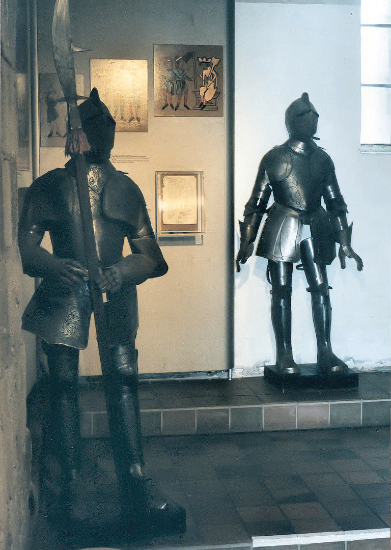 Castle of Nideggen - Exhibits in keep